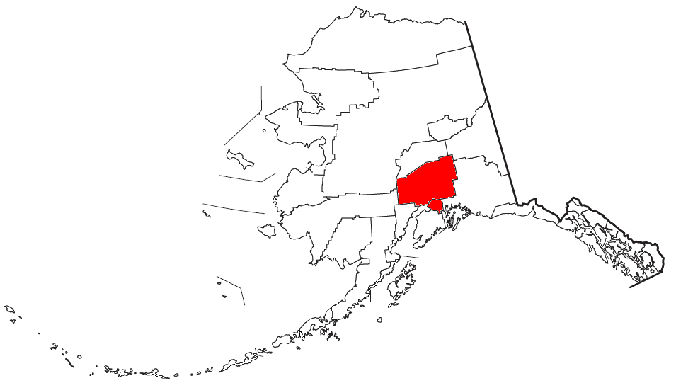 Locator map of the Anchorage Metropolitan Statistical Area in the southern part of the U.S. state of Alaska.